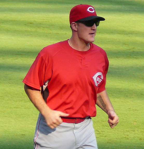 If used somewhere other than Wikipedia, Nelson, by name. 04:25, 20 September 2009 . . Chrisjnelson . . 555×571 (297 KB)